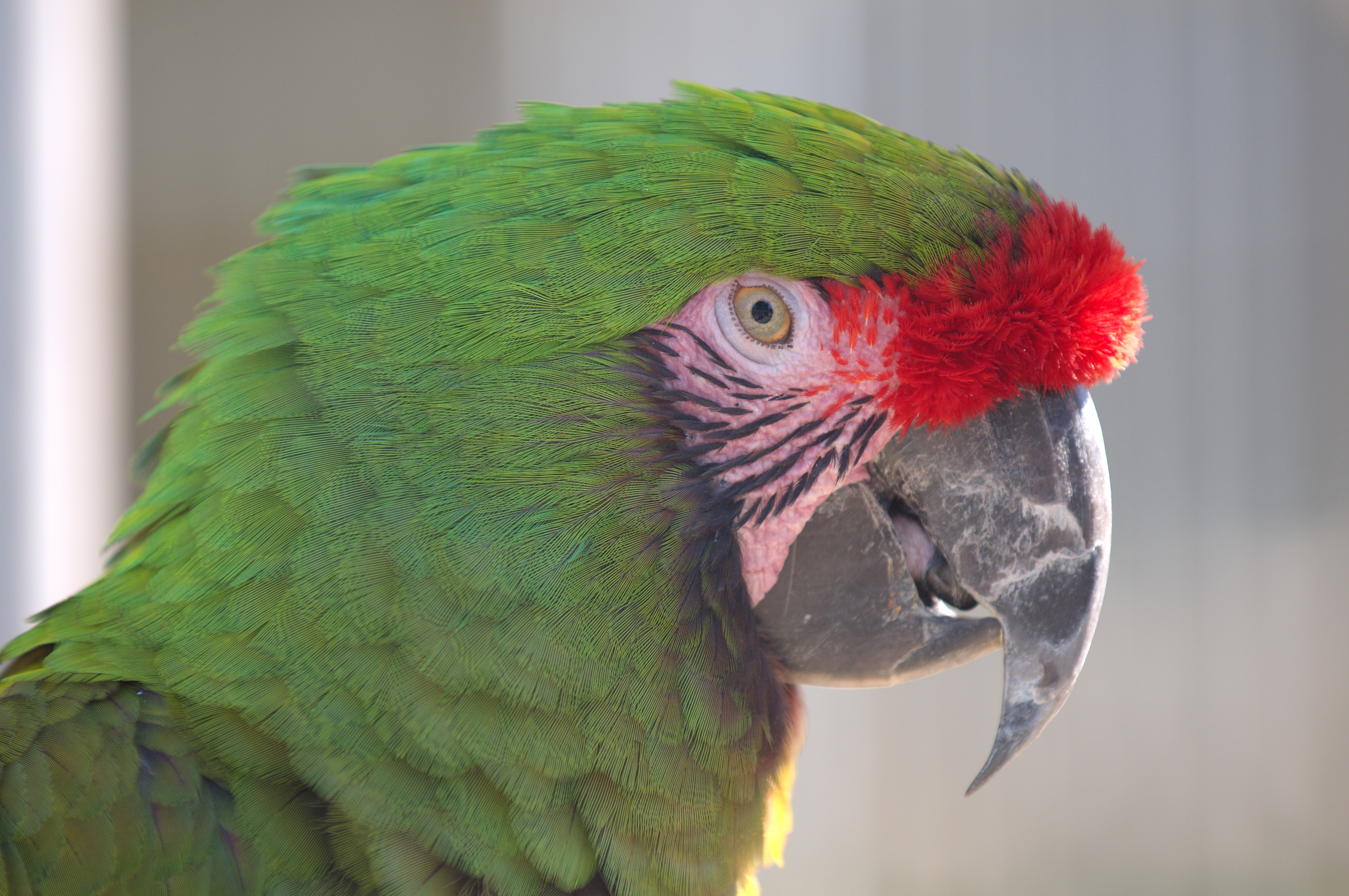 Closeup on the right side of the head of a Military Macaw, in the Magical Forest at Cougar Mountain Zoo, USA.